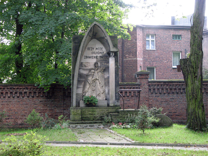 Calvary in Katowice Panewniki, Chapel of the Rosary - The fourth joyful mystery "Presentation of Jesus at the Temple". Completed in 1957.